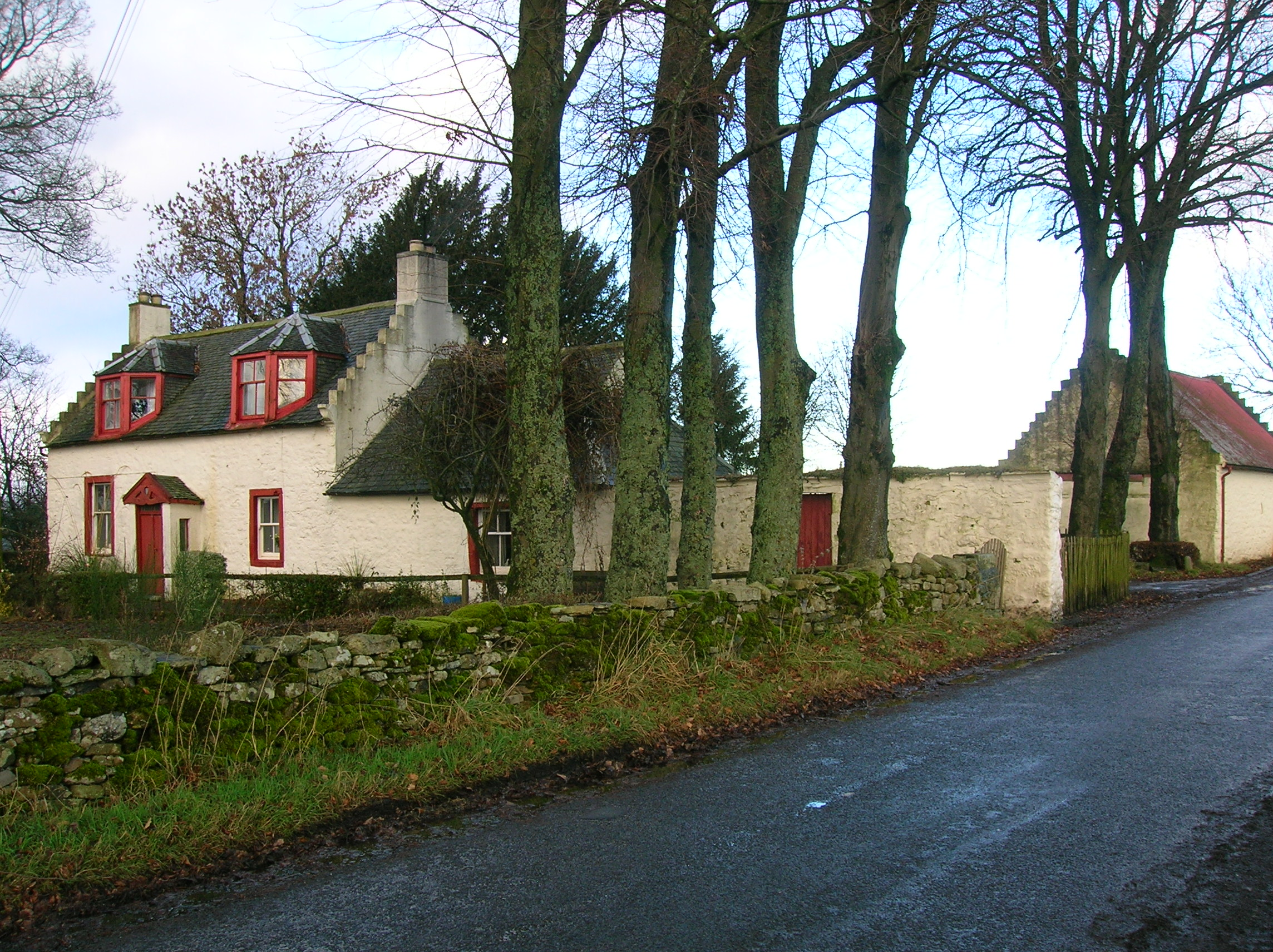 Drumbuie House, Barrmill, North Ayrshire, Scotland